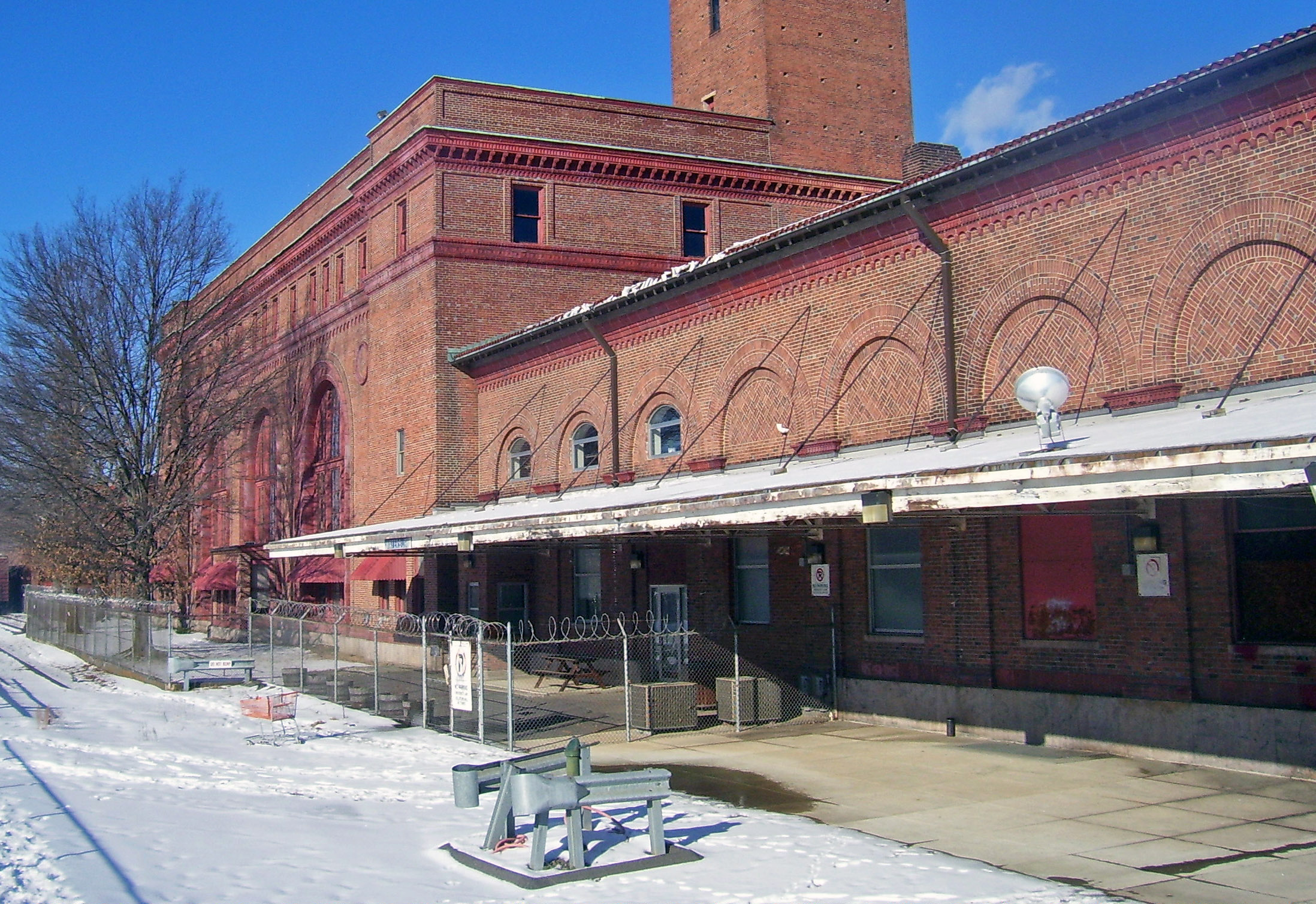 West (rear) elevation of former train station building in Waterbury, CT, USA